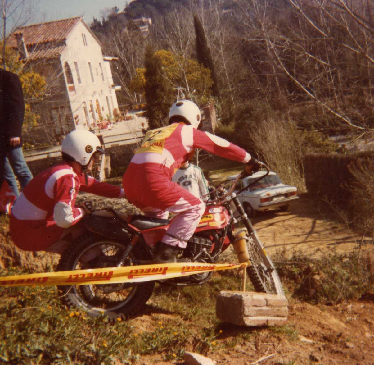 A couple of riders with his Montesa Cota 348 with sidecar at "Side-Trial d'Òrrius" in Òrrius (Catalonia) on February 17, 1980.